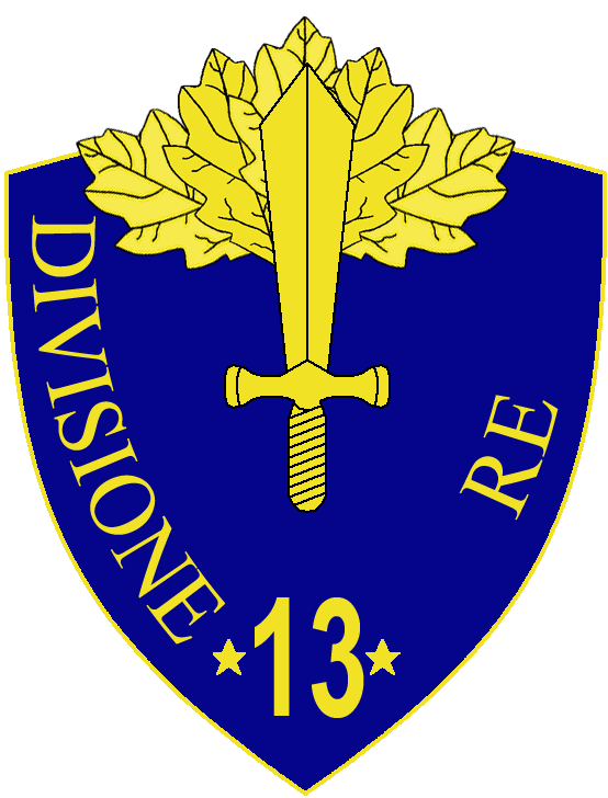 13a Divisione Fanteria Re insignia, Regio Esercito, Italy, WWII